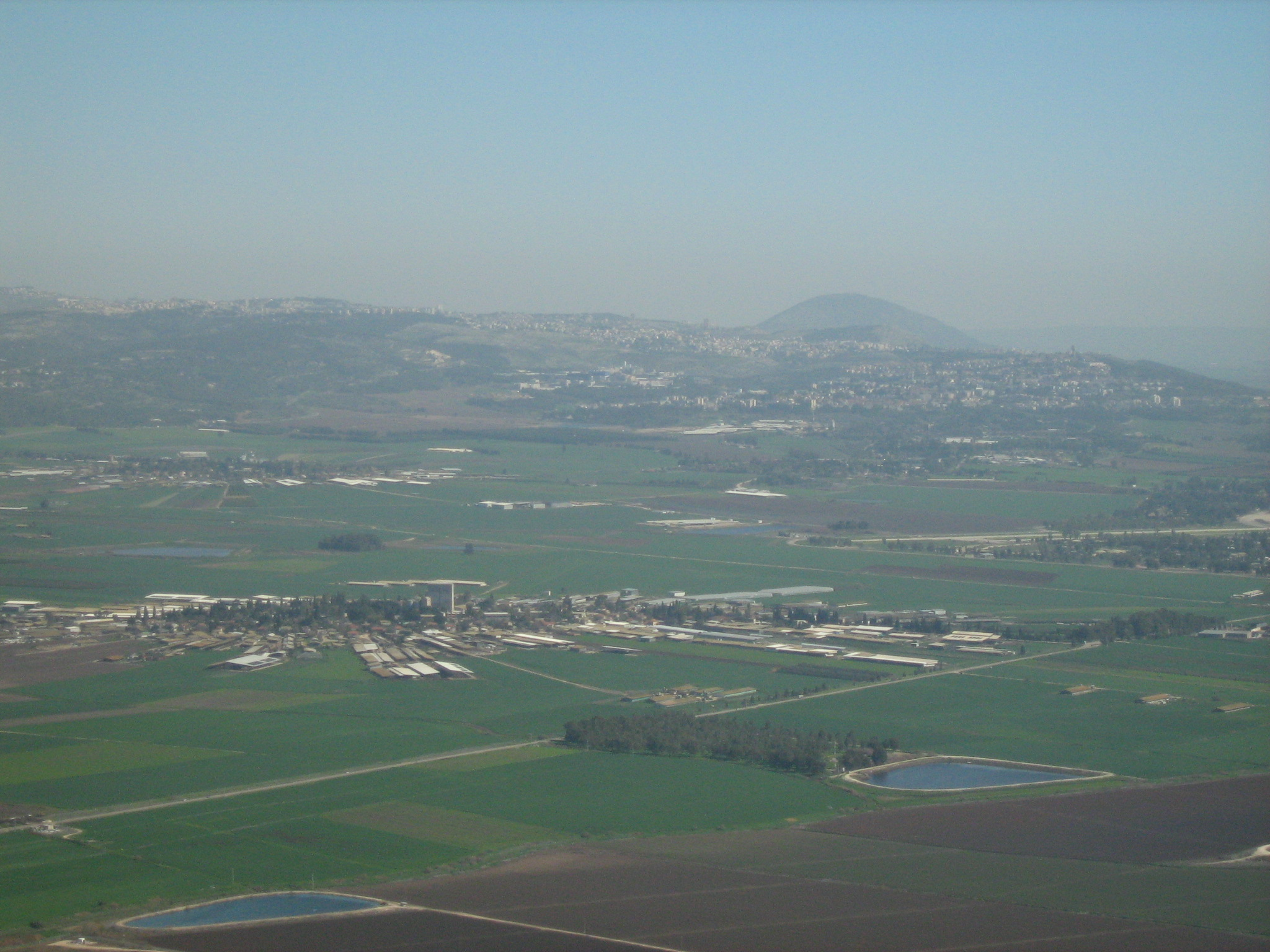 המראה מגג המנזר בקרן הכרמל, the village in the front of the picture is Kfar Yehoshua. Behind, on the left of the picture, still in the valley is Nahallal. Behind on the right is Migdal Haemek and on the left are the mountains of Nazereth.